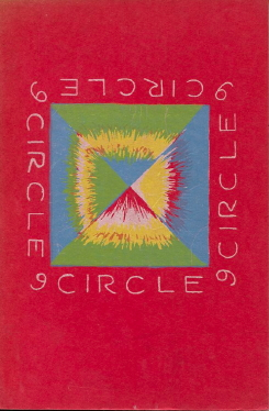 Cover of 9th issue of Circle Magazine, 1946